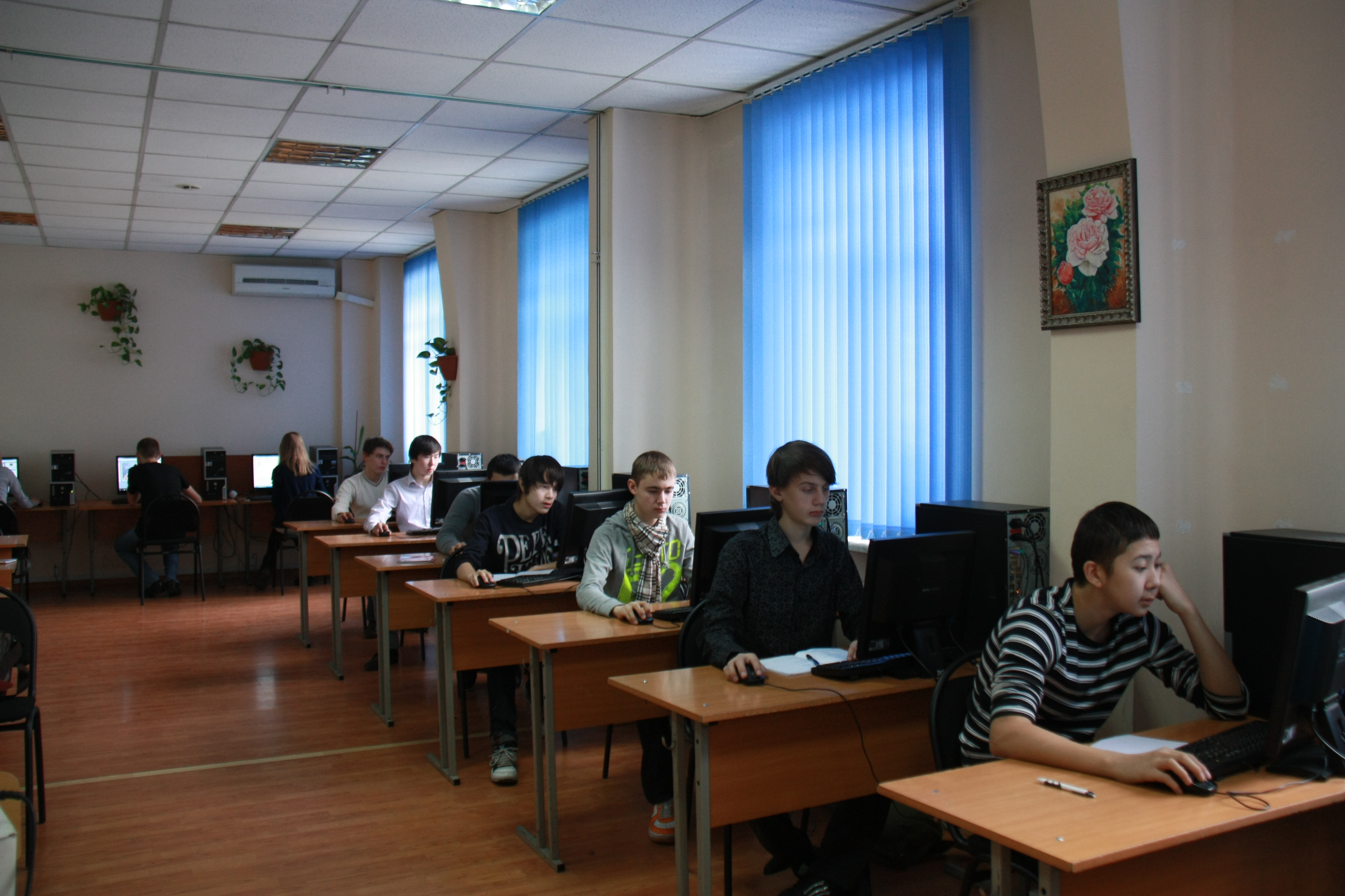 College of International Academy of Business